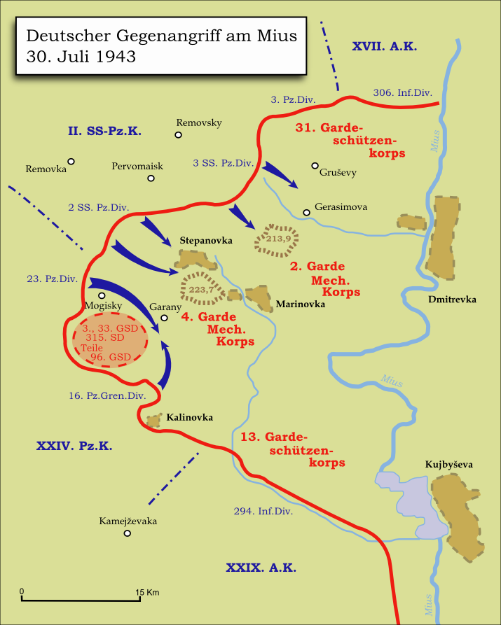 German map showing the counter attack of the German 6th Army against the Soviet bridgehead at the Mius River on July 30th, 1943. The work is based on a sketch in George M. Nipe: Decision in the Ukraine, Winnipeg 1996, p.181